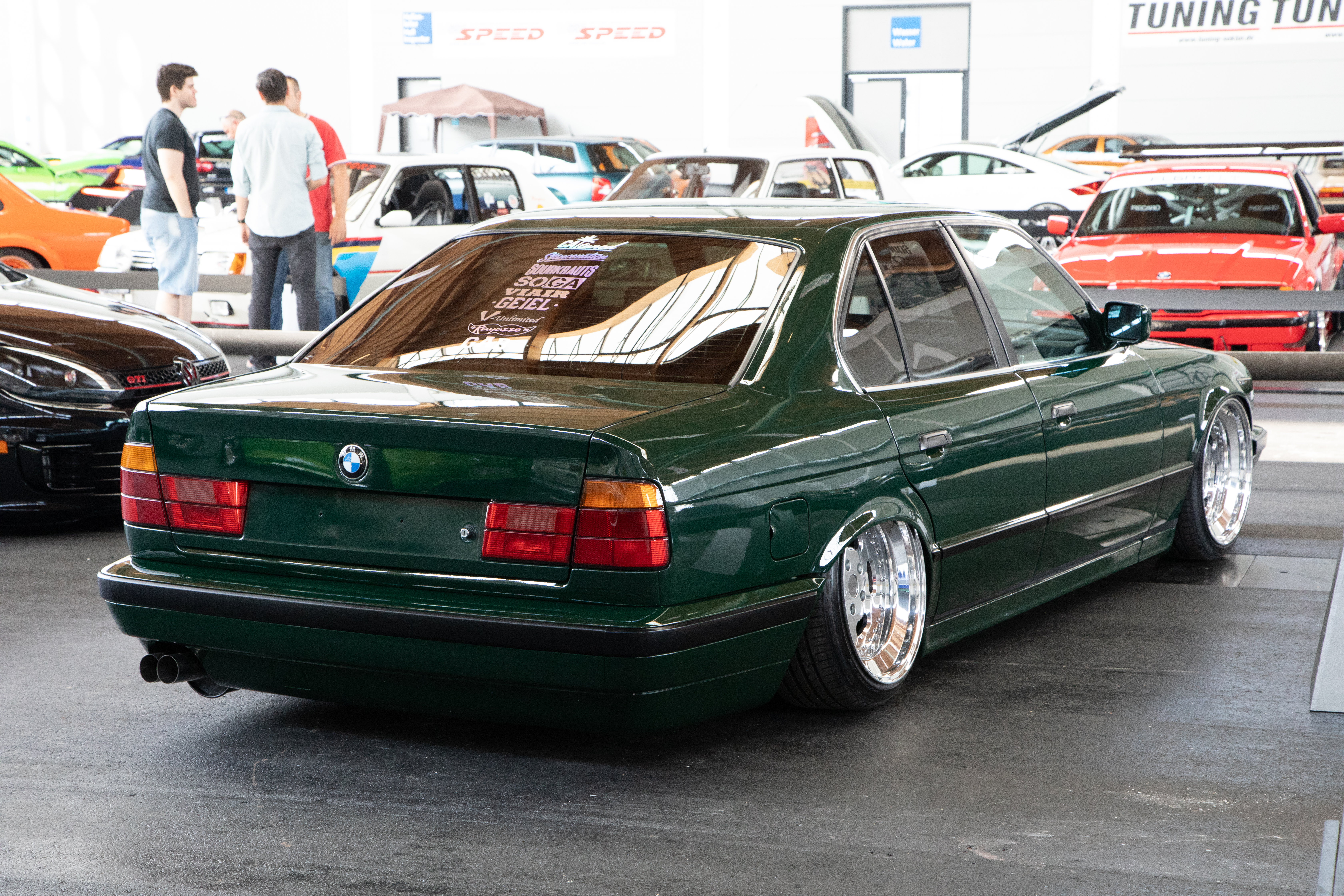 Tuning World Bodensee 2018